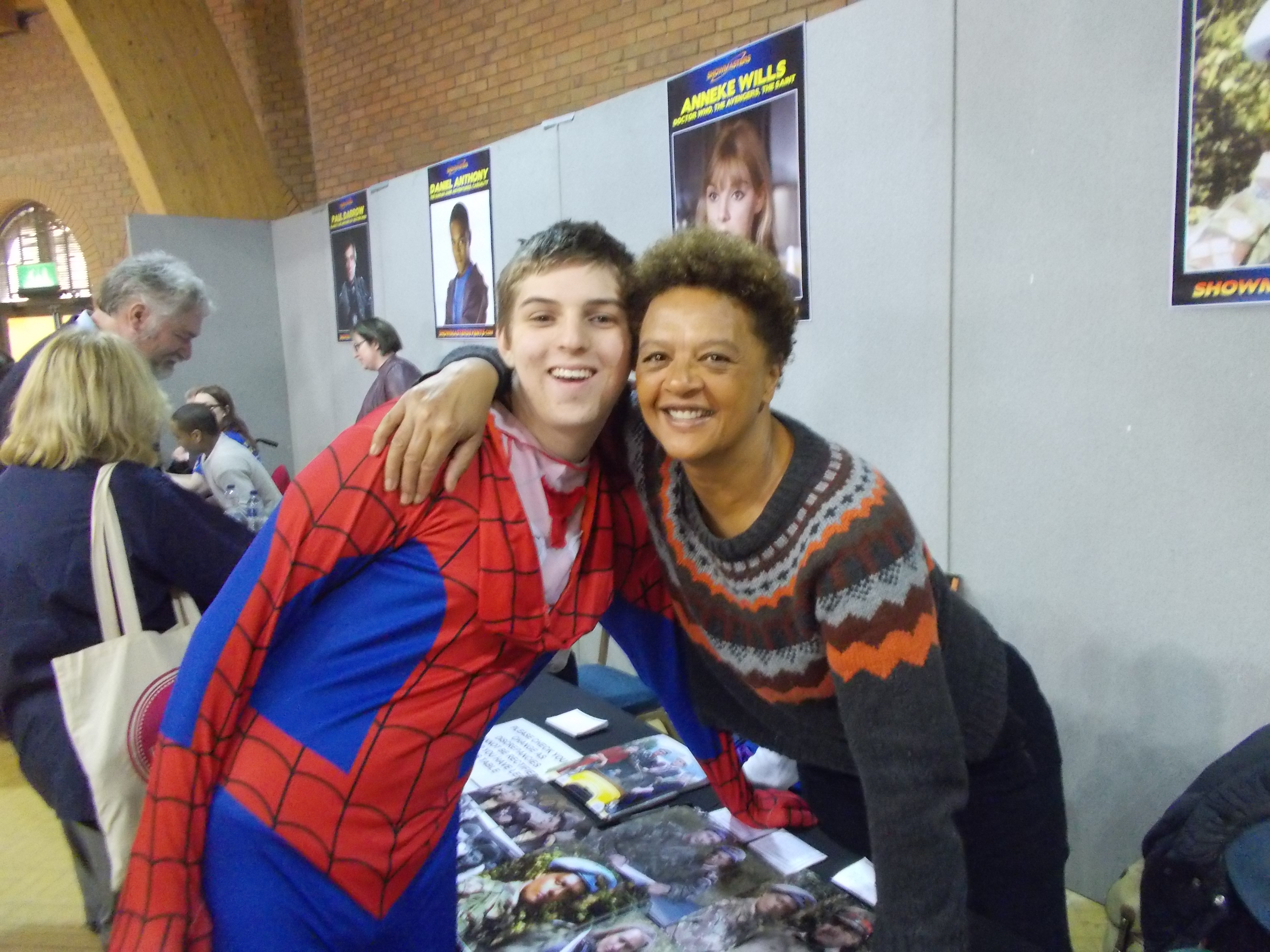 A young fan (Left) meets Angela Bruce (Right) at Bournemouth Comic-Con in 2016.